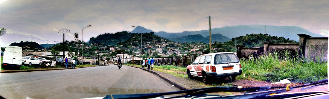 View from Limbe to Mt. Cameroon (Fako) and Mt. Etinde